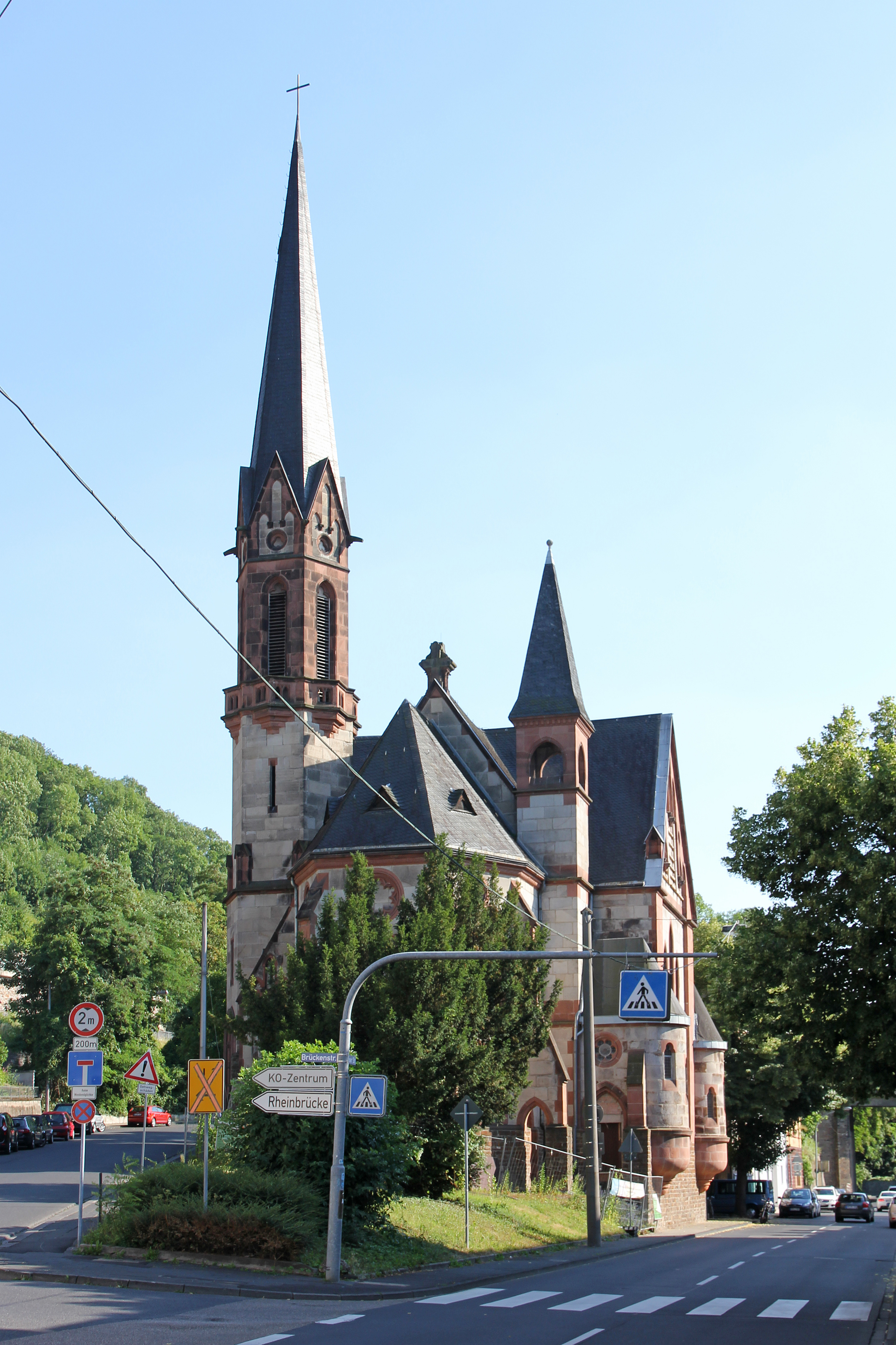 Evangelical Church in Koblenz-Pfaffendorf